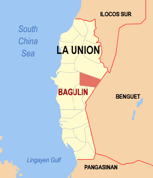 Map of La Union showing the location of Bagulin